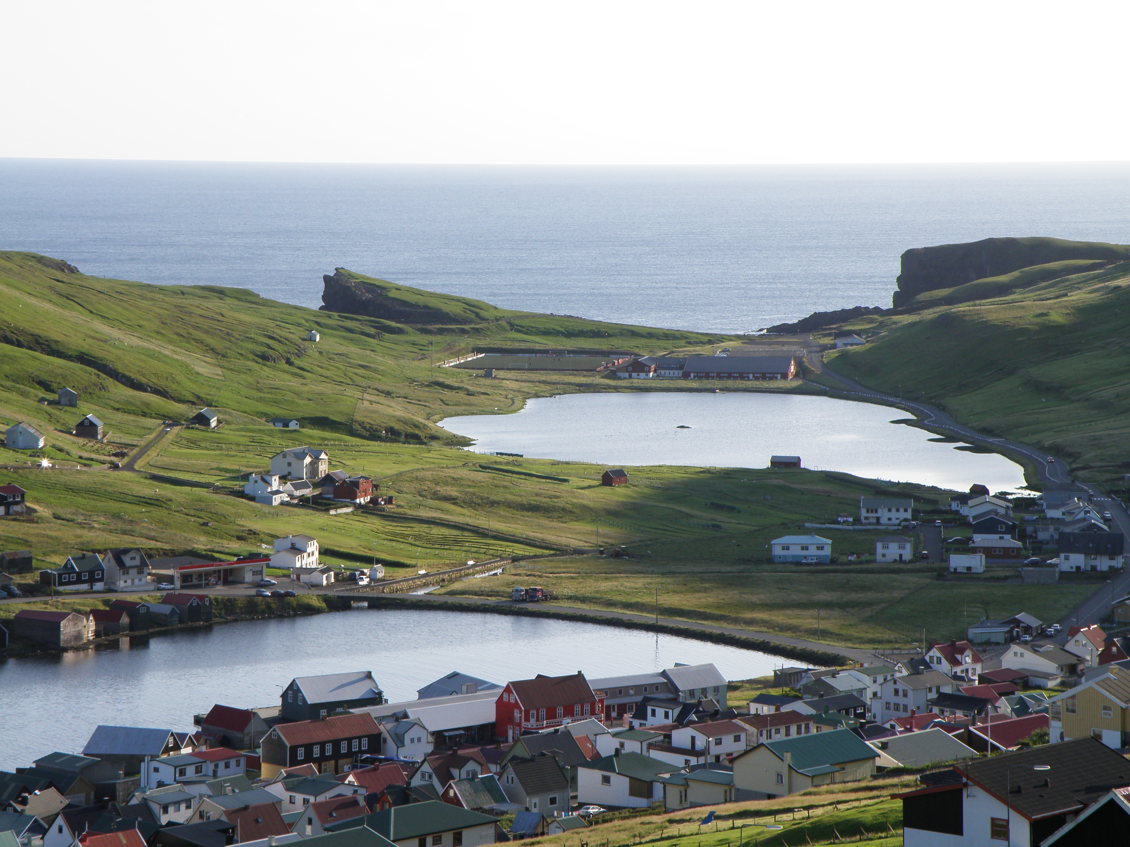 Vágur is a village in Suðuroy in the Faroe Islands. On this photo one can see the fjord, Vágsfjørður, which is located on the east coast of the island Suðuroy. A part of the village is visible, the lake Vatnið and the west coast is also visible. The west coast is called Vágseiði. Between the west coast and the lake is the football stadium of FC Suðuroy and the sports hall.